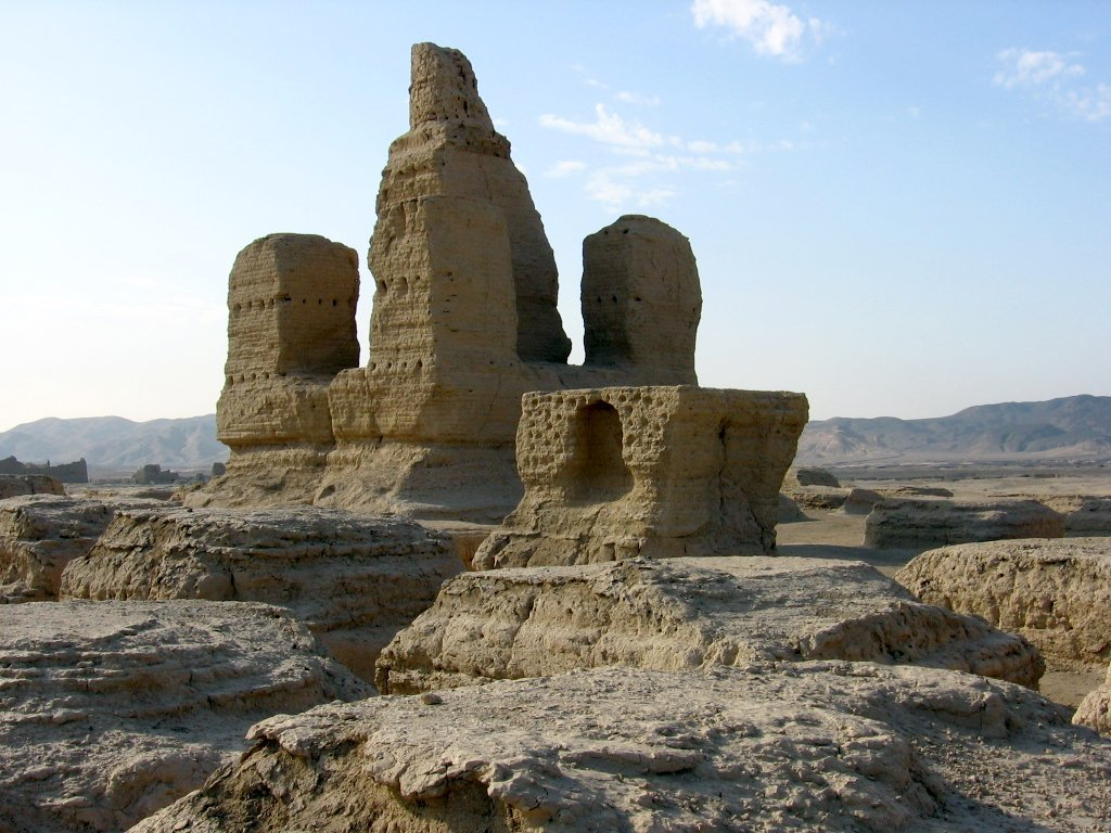 Turfan (Turpan/Tulufan) is an oasis city in the Xinjiang Uygur Autonomous Region of the People's Republic of China. Jiaohe ruins.